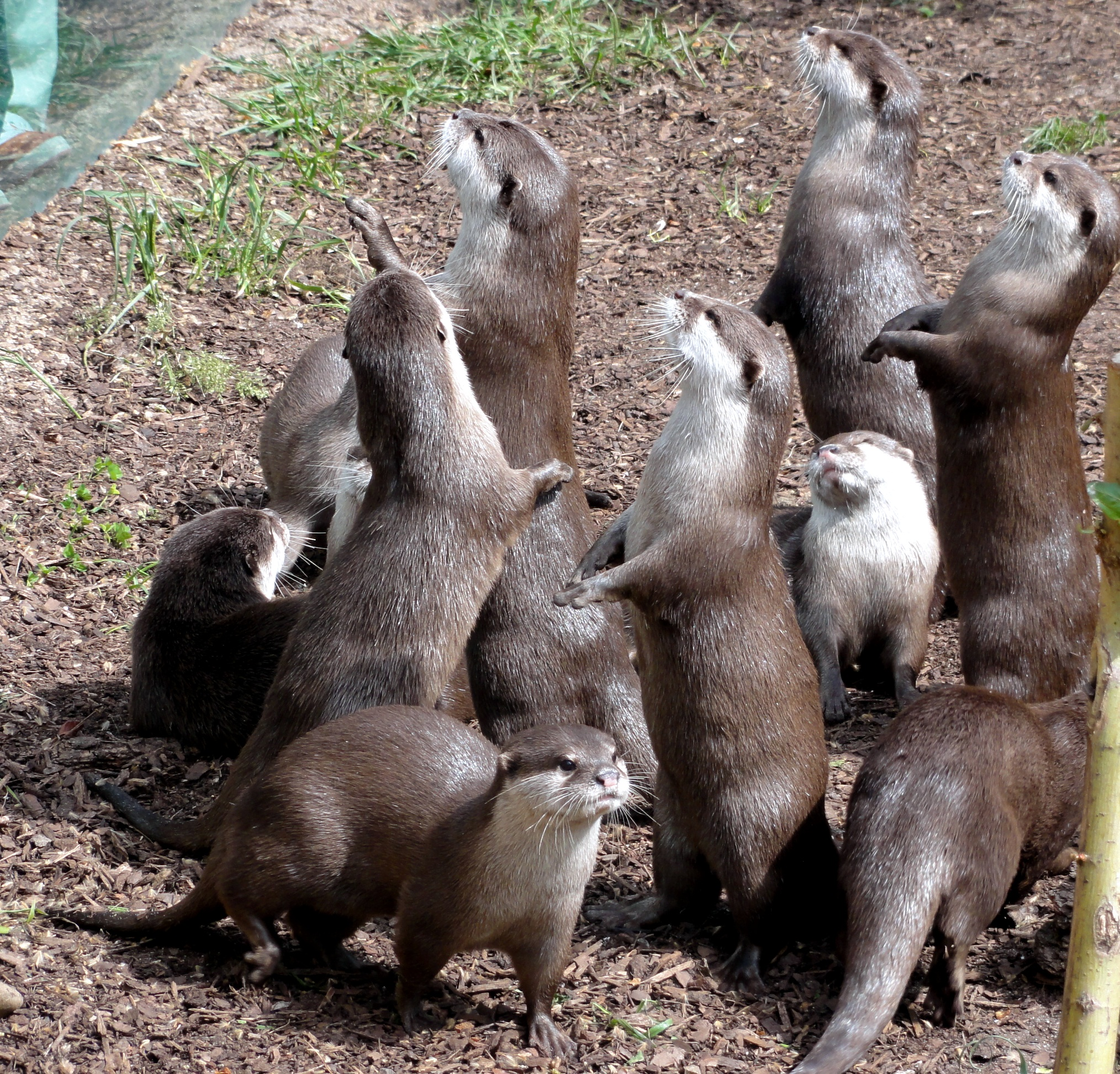 Aonyx cinerea